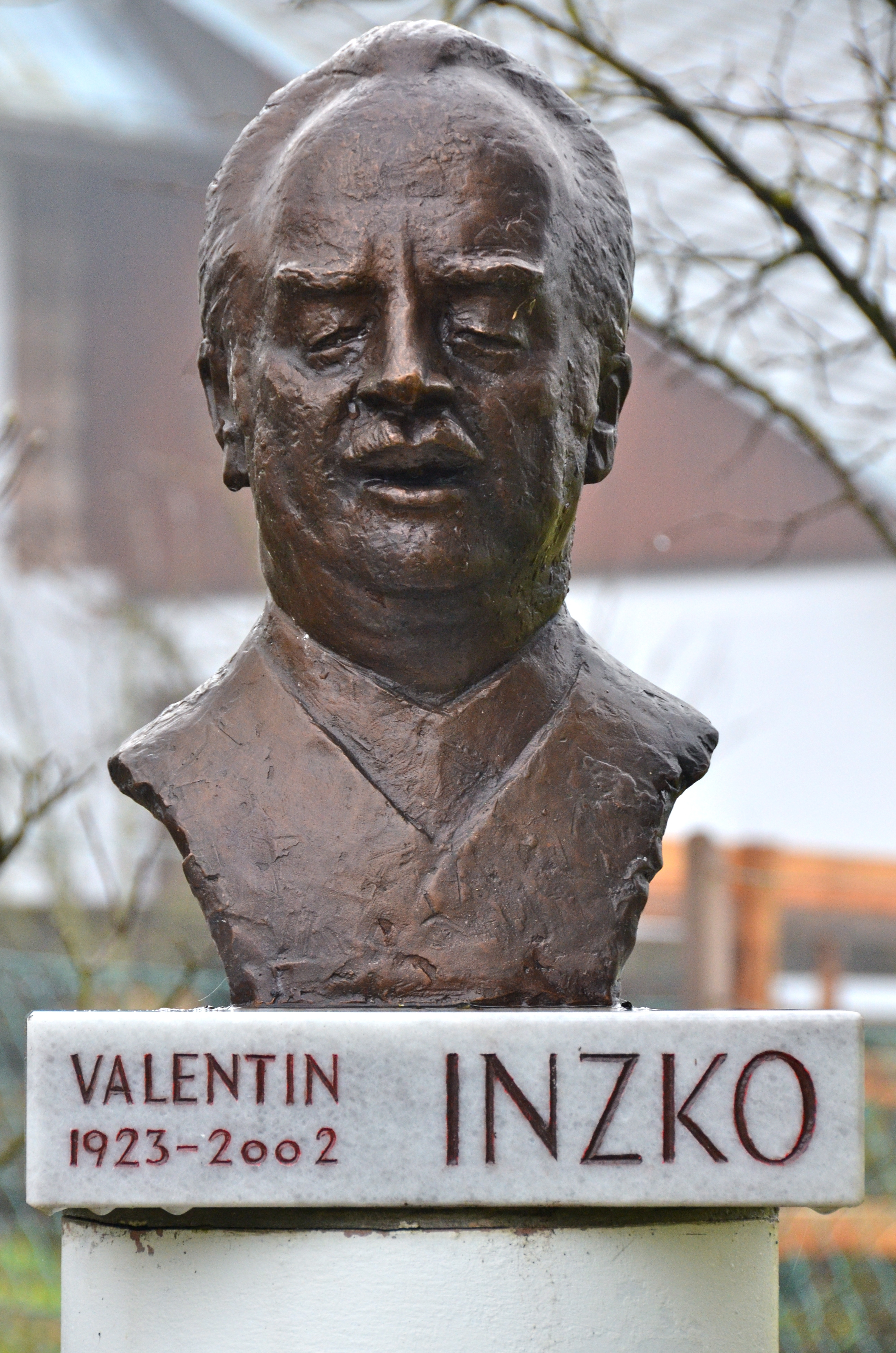 Bust of Valentin Inzko Sr., created by the Slovenian sculptor France Gorše at the cultural park at Suetschach, market town Feistritz im Rosental, district Klagenfurt Land, Carinthia / Austria / EU